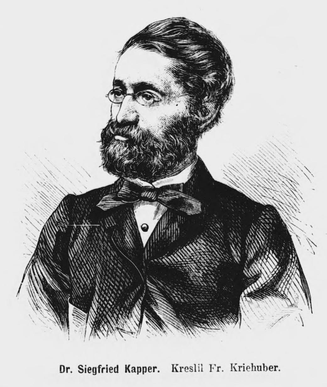 Portrait of Siegfried Kapper (1821–1879), poet from Bohemia writing in Czech and German.